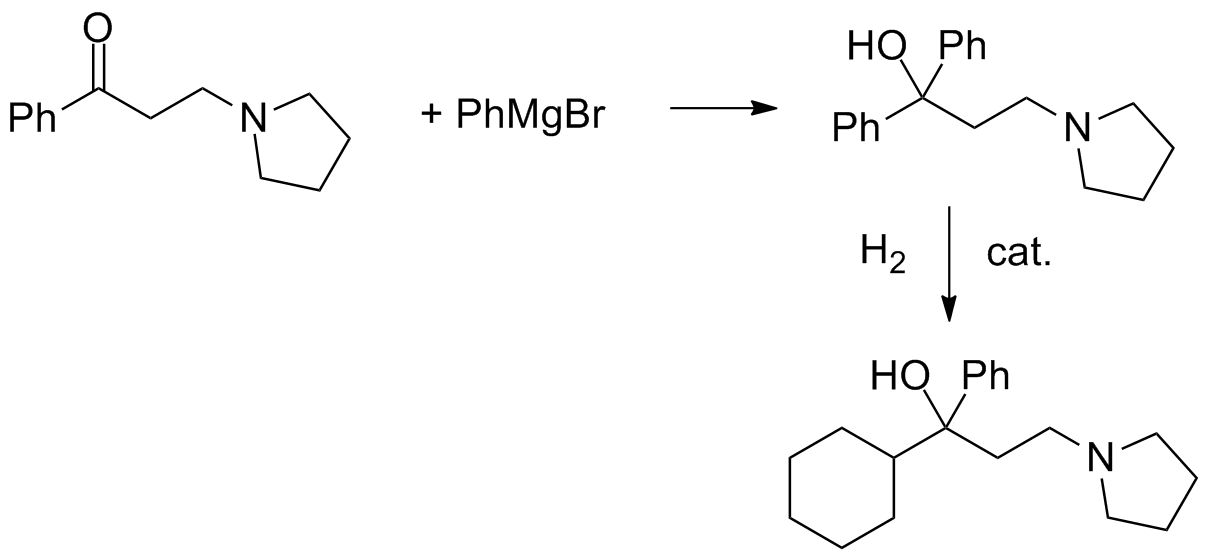 J. Chem. Soc., 1951, 52-60